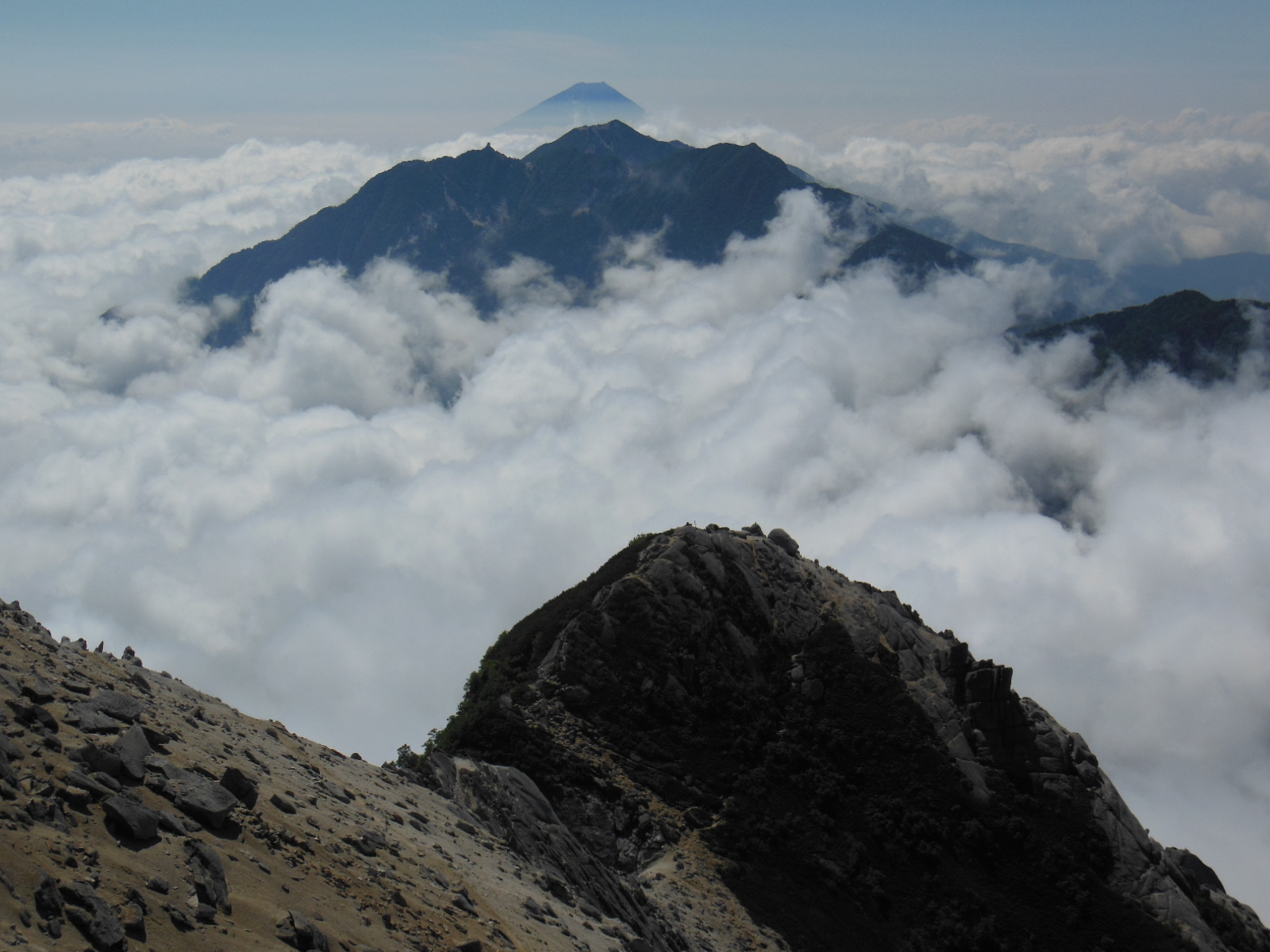 Mount Kita and Mount Fuji seen from Mount Kaikoma